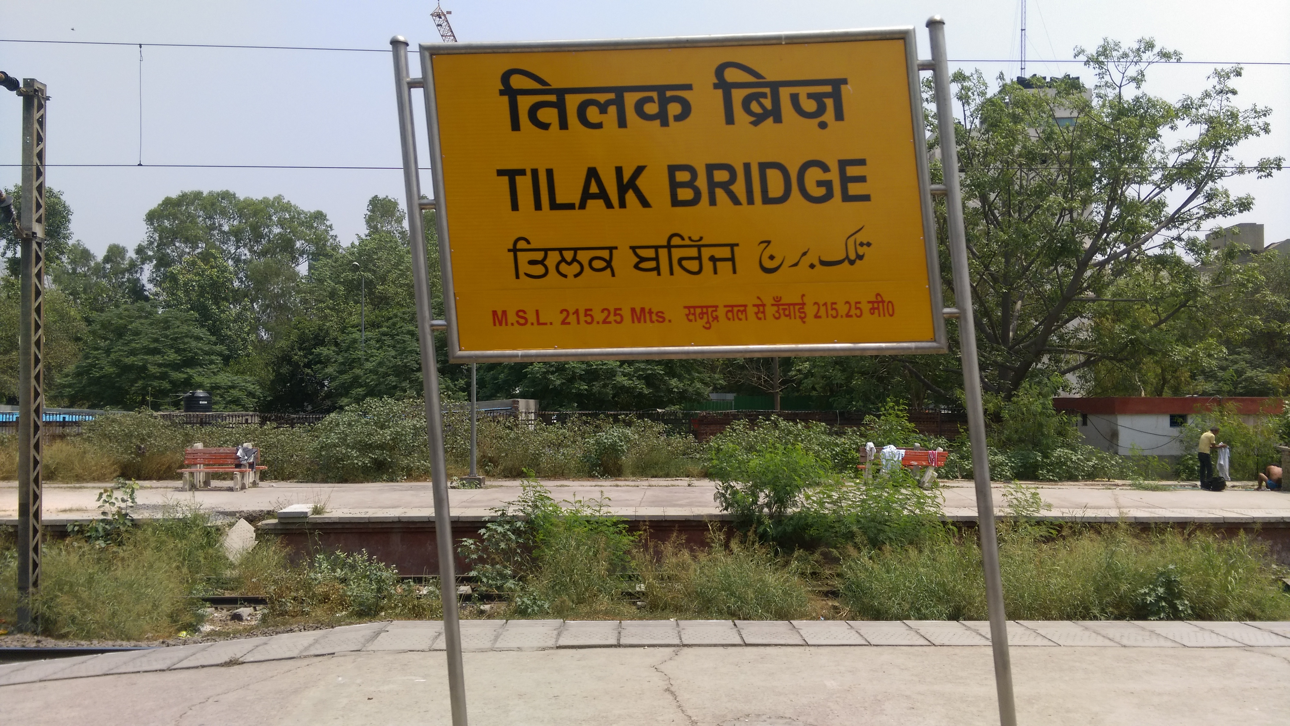 Tilak Bridge railway station - Station board